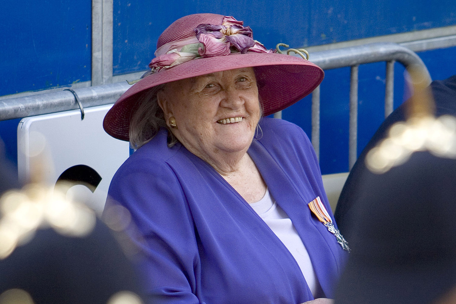 Jos Mulder-Gemmeke, Knight of the Military William Order, on Prinsjesdag 2006